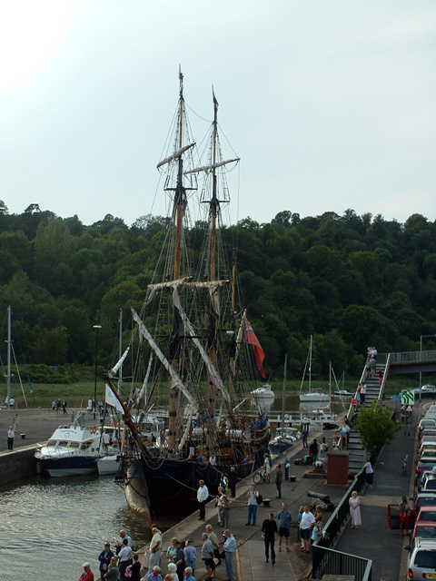 A tallship in the Cumberland lock, Bristol Harbour during the 2004 Harbour festival.